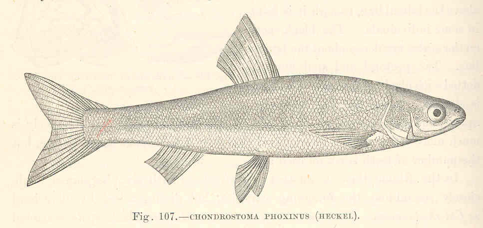 Chondrostoma phoxinus (Heckel) Subject: Chondrostoma Tag: Fish